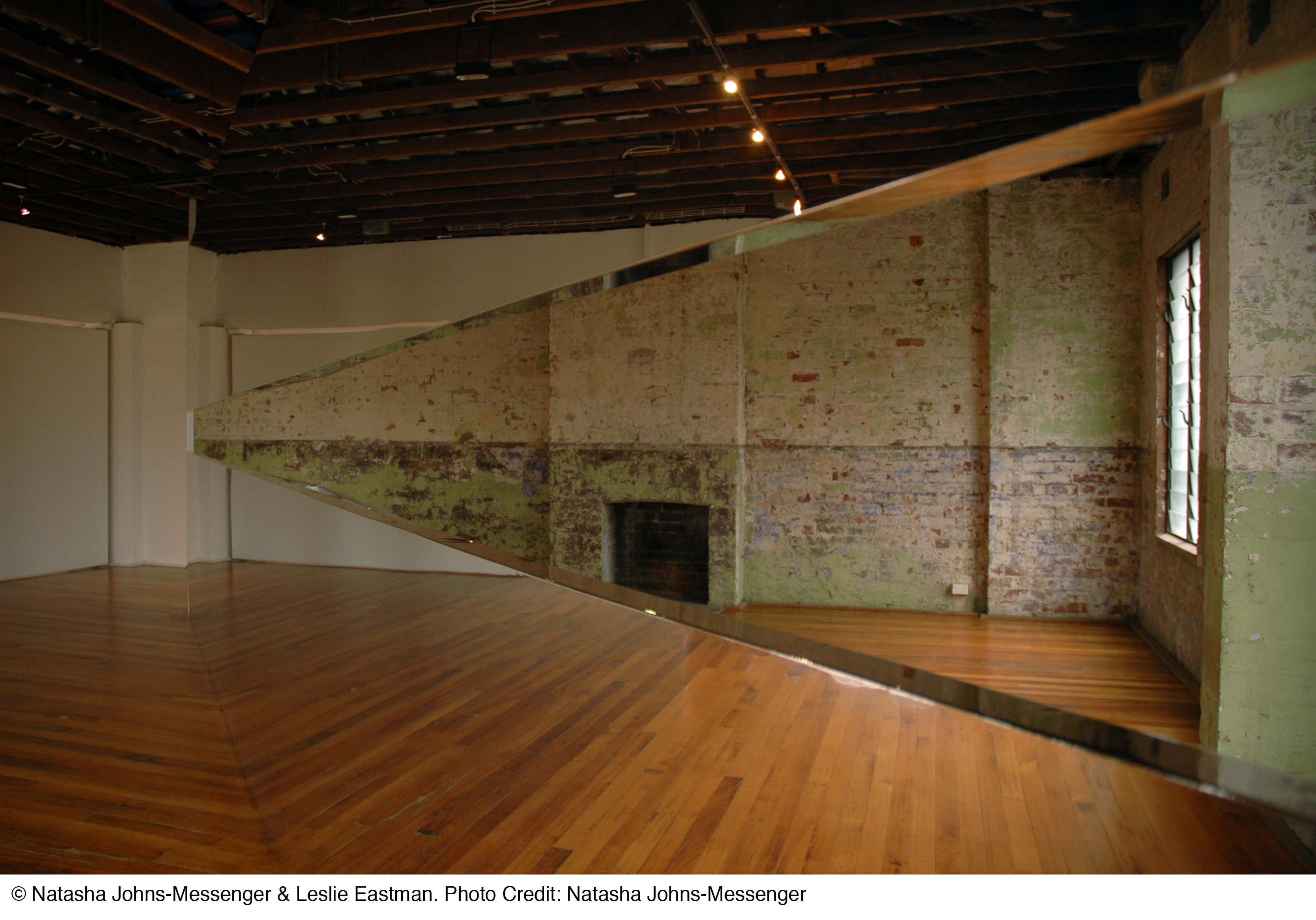 Natasha Johns-Messenger & Leslie Eastman, Pointform, Conical Gallery, Melbourne, Australia, 2004